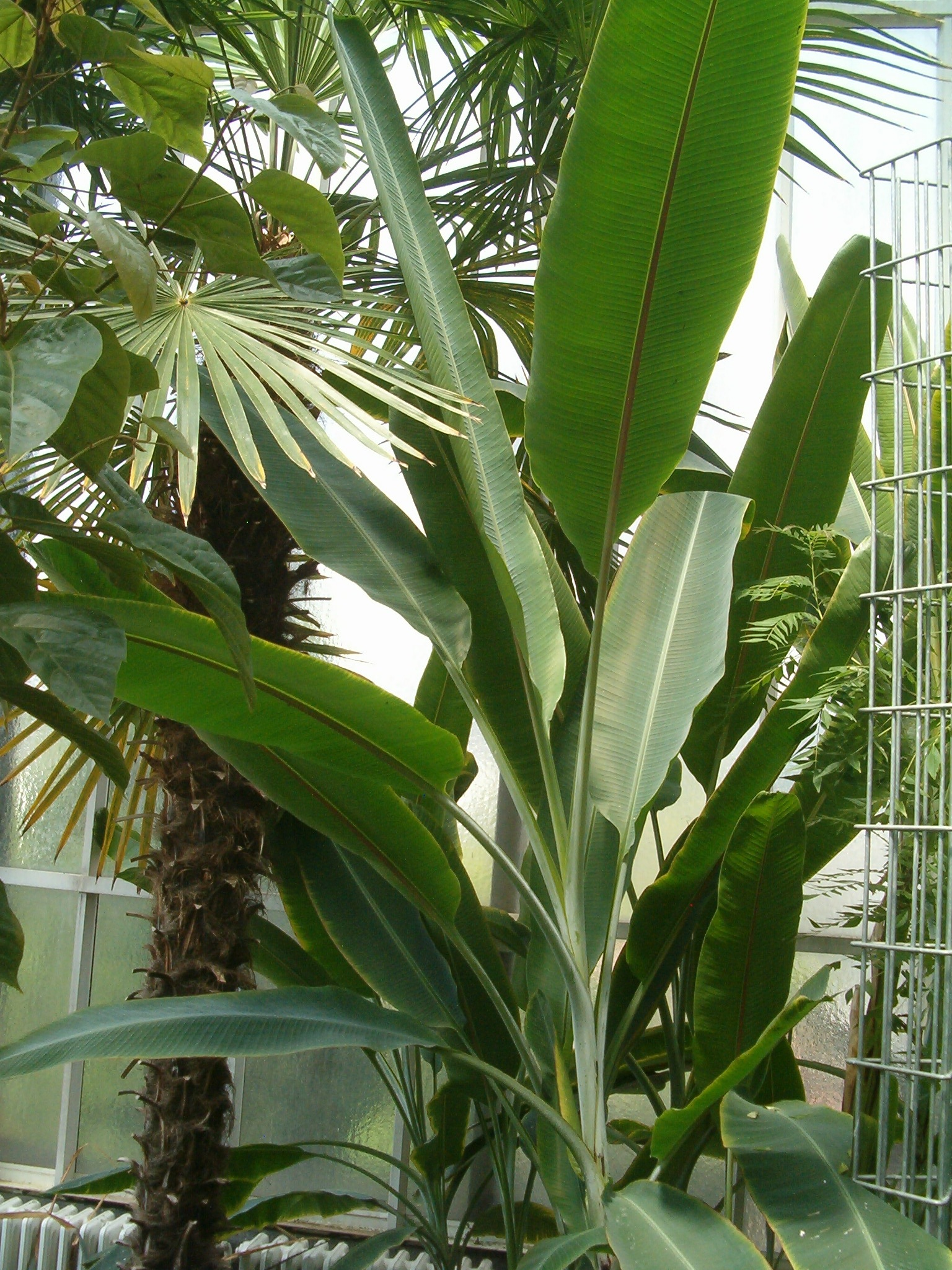 At Botanical Gardens Berlin-Dahlem Species Musa textilis